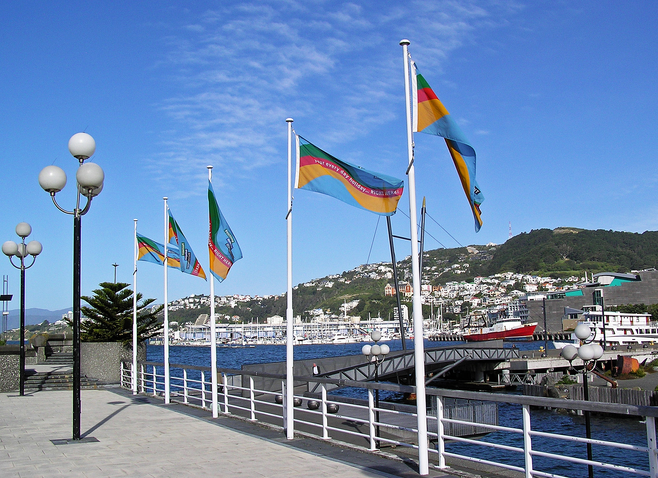 Wellington Harbour.